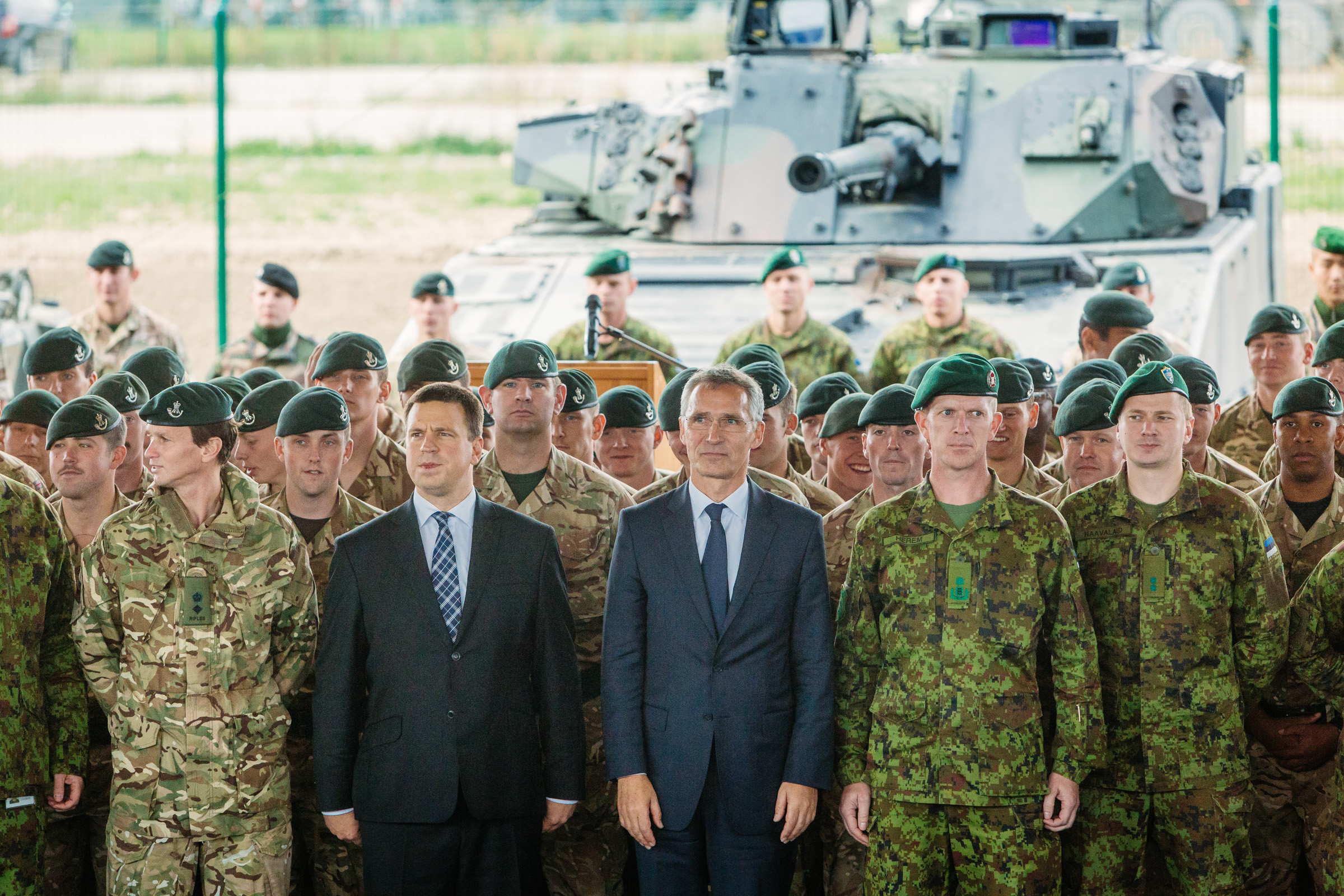 Press trip to visit the allied forces stationed in Tapa. Meetings with NATO units and key figures from the Estonian defence and allied forces